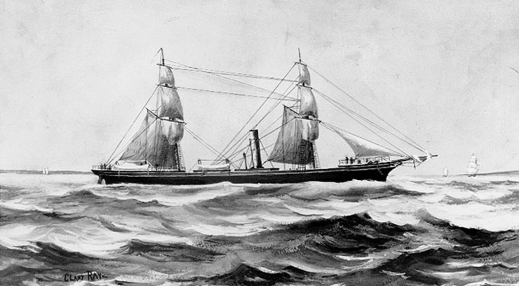 Confederate Cruiser CSS Georgia, from the U.S. Naval Historical Center.